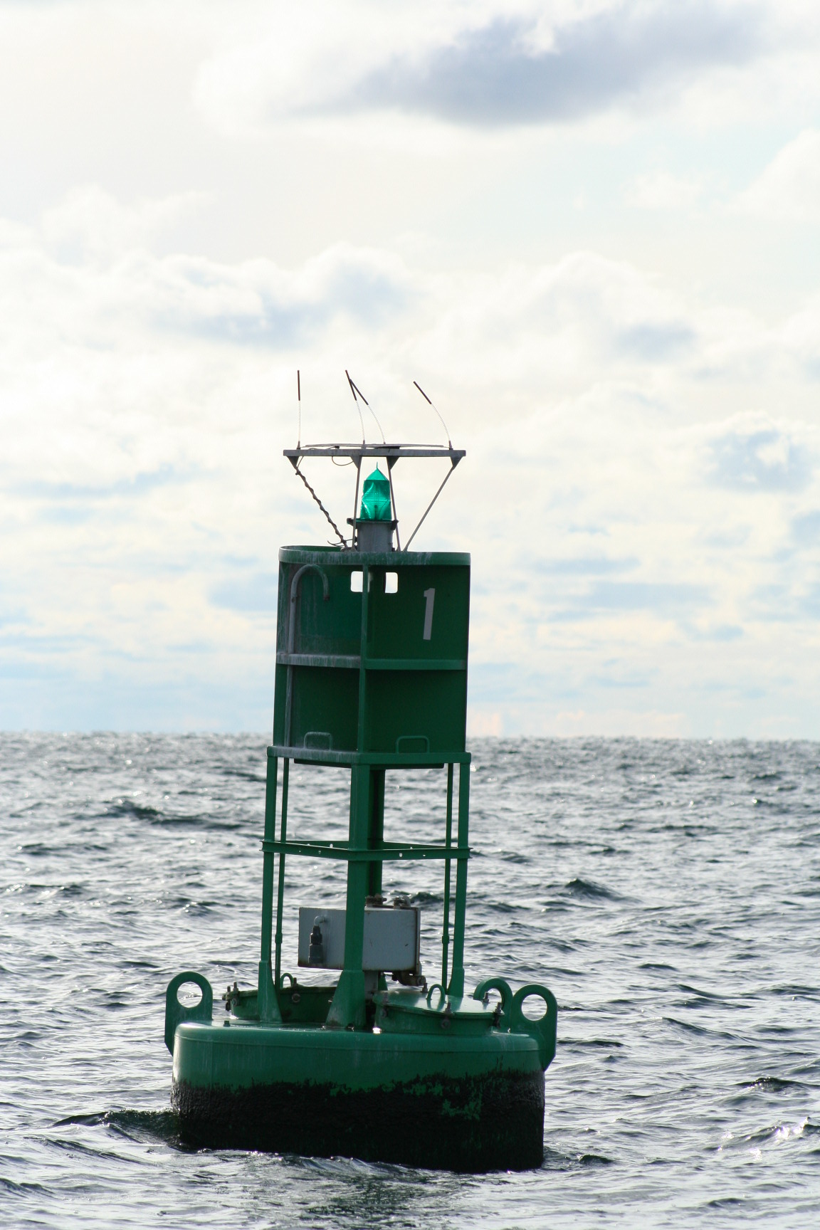 The Lake